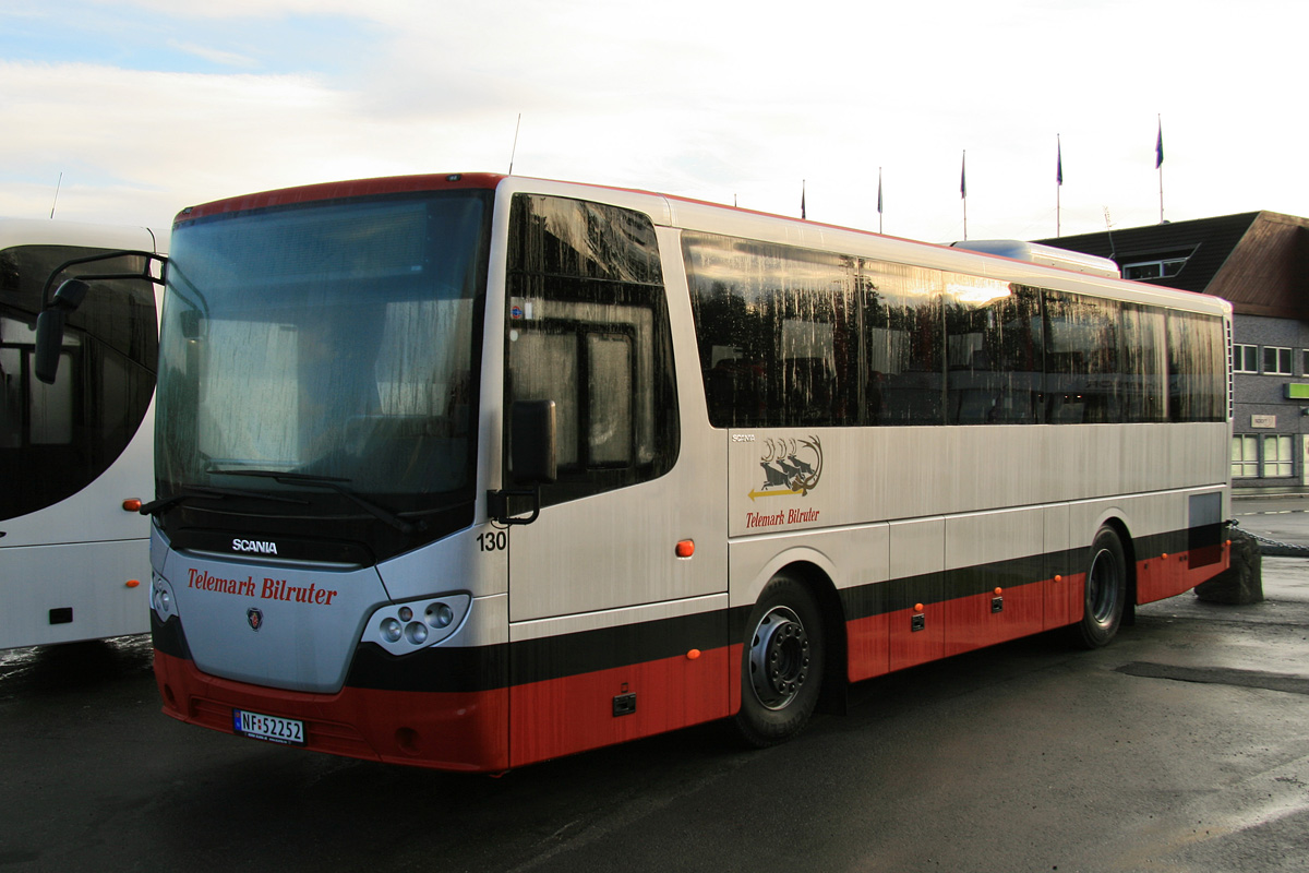 Scania LK 280 EB4x2NI OmniExpress 3.20, 11.0 metres long.